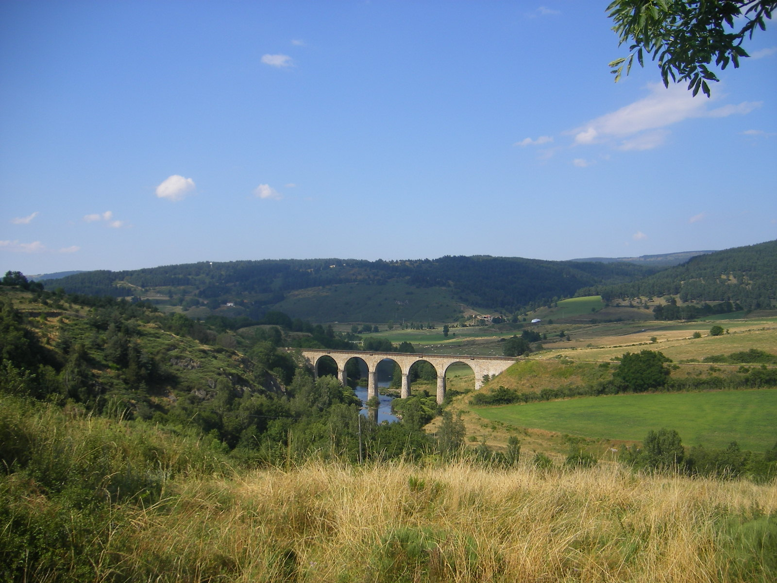 the valley of Allier between Luc and Langogne